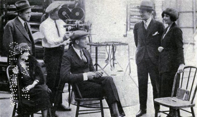 Still from the production of the American silent film Red Hot Romance (1922), published next to page 42 in Breaking into the Movies, 1921, John Emerson and Anita Loos, G. W. Jacobs. From the left, screenwriters John Emerson and Anita Loos, director Victor Fleming (seated), and actors May Collins and Basil Sydney. A test of how the actors' makeup will appear when filmed.